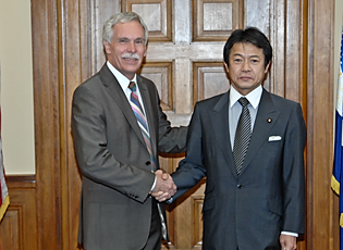 Discussing Market Access of US beef and the Doha Round. Agriculture Secretary Ed Schafer and Shoichi Nakagawa, Parliamentary Member, Liberal Democratic Party, Japan discuss market access of US beef and the Doha Round. (05/02/08) (USDA Photo 08di1348-02)